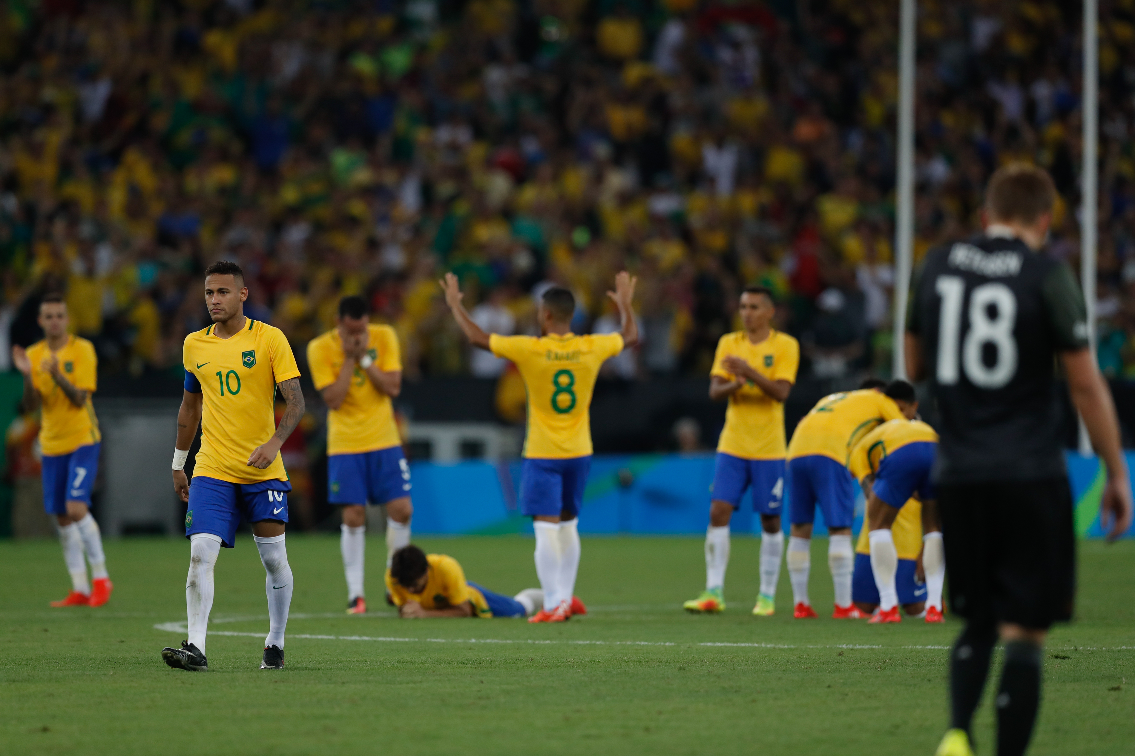 Rio de Janeiro - Brasil vence Alemanha e conquista primeiro ouro olímpico do futebol (Fernando Frazão/Agência Brasil)